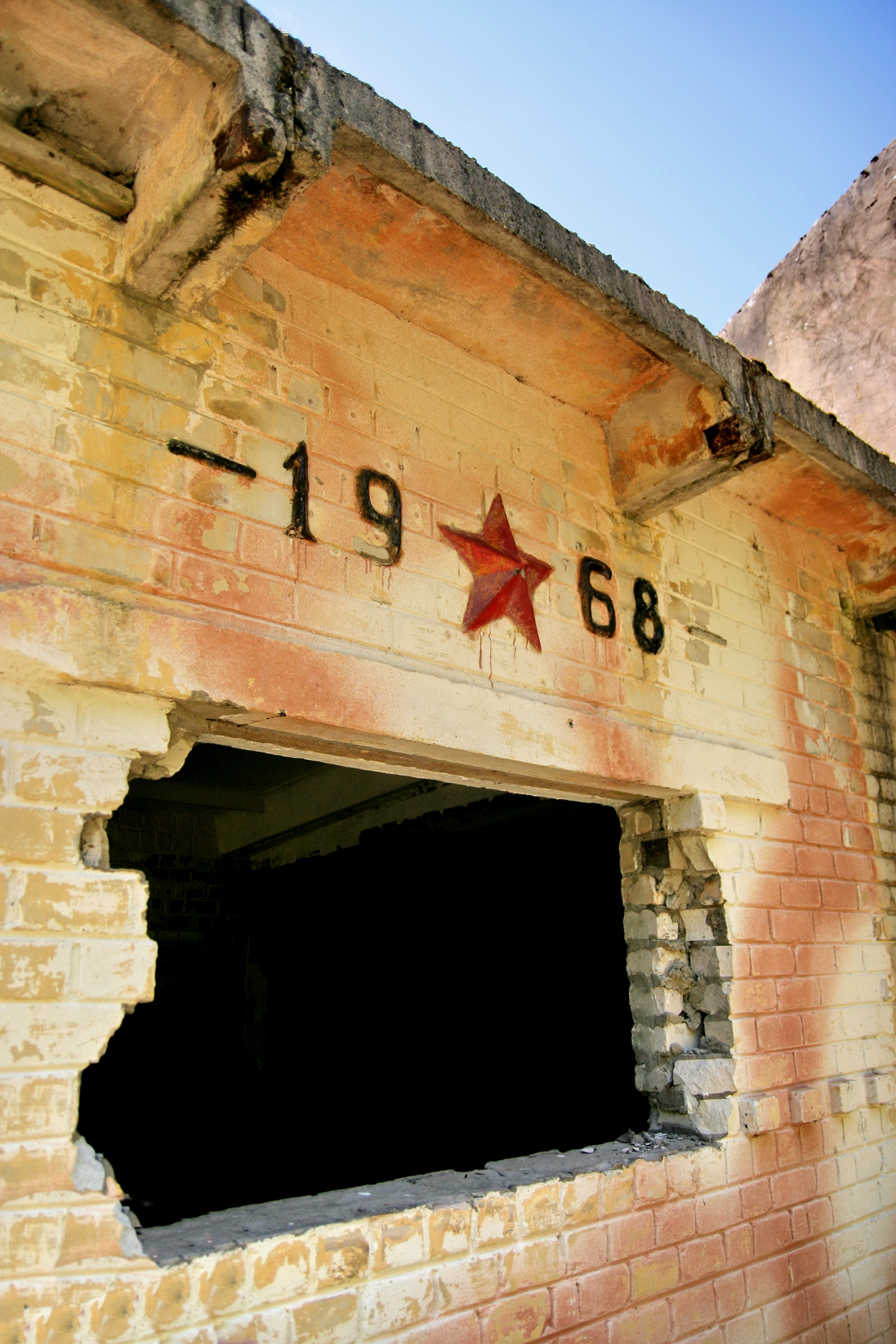 Soviet Military rocket base 5 SS-4 near Kelmai, Lithuania